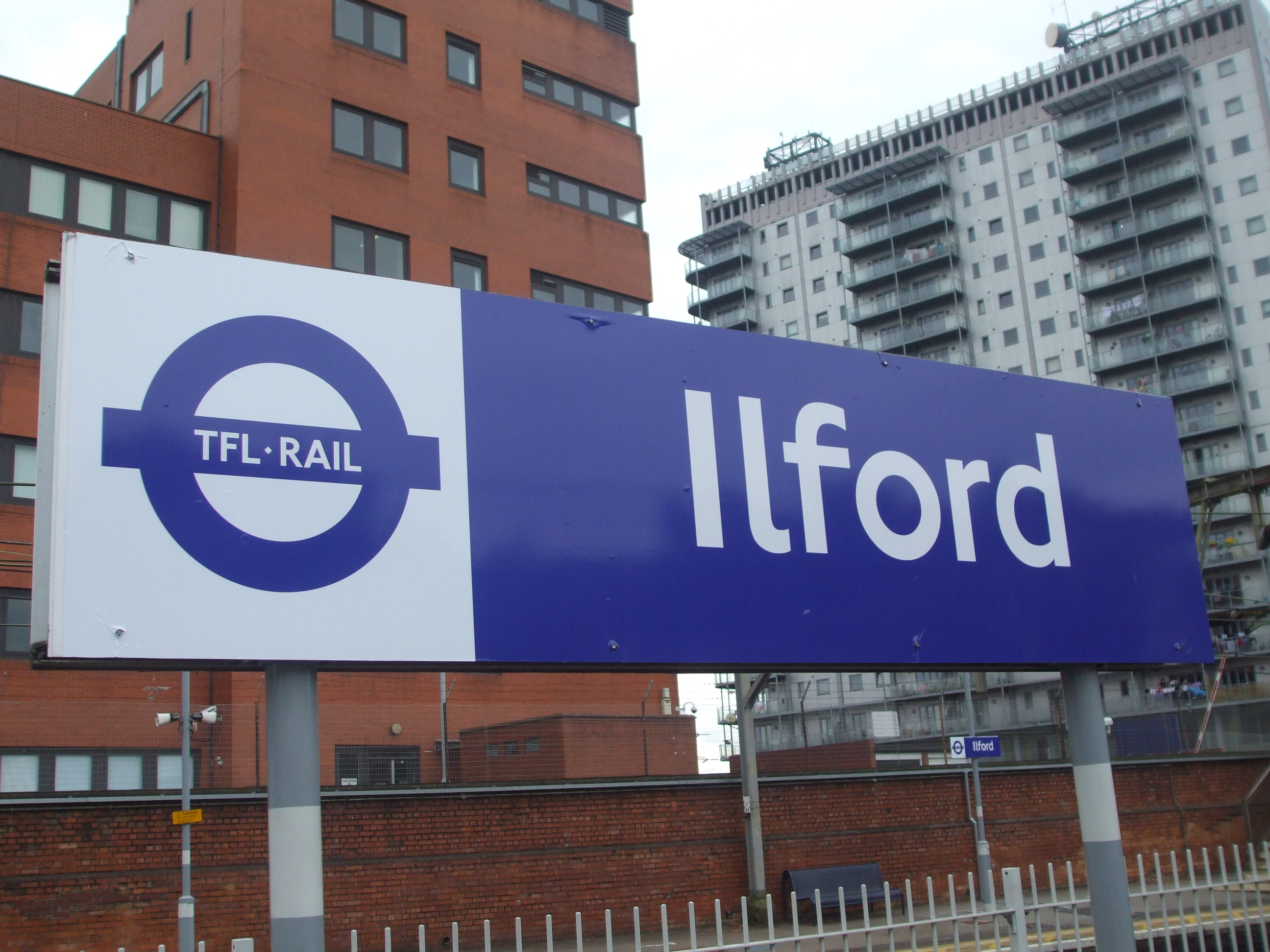 Ilford station signage in TfL rail colours in June 2015, shortly after transfer to TfL. Note that the F in TfL is capitalised.